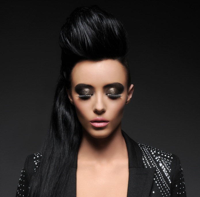 Publicity photo of Hatty Keane, solo